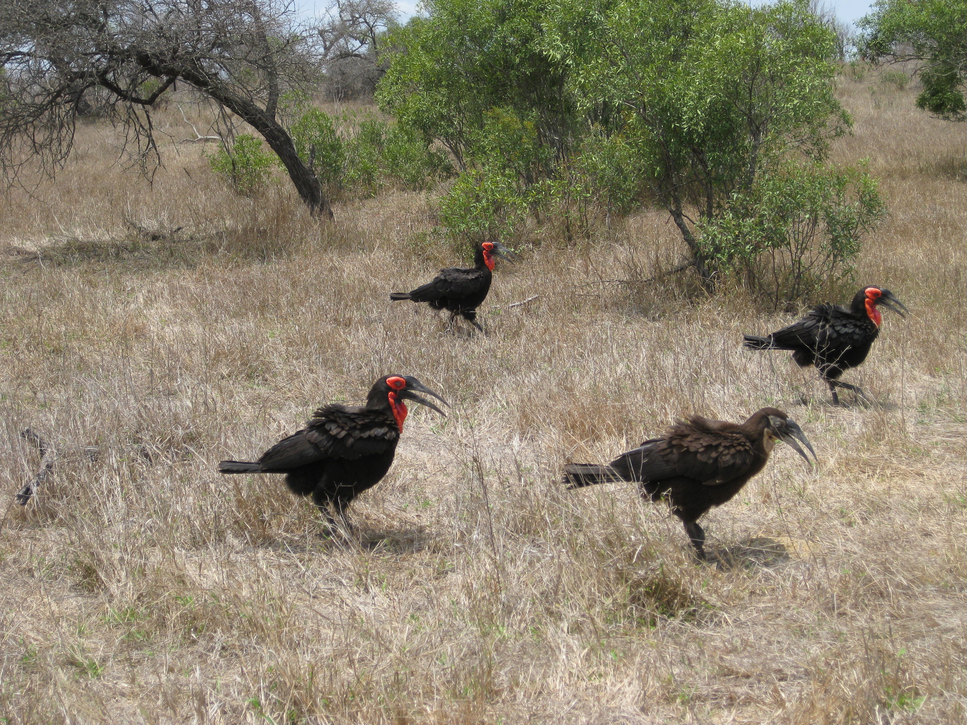 A family of four Southern ground-hornbills in the southern Kruger National Park, South Africa.